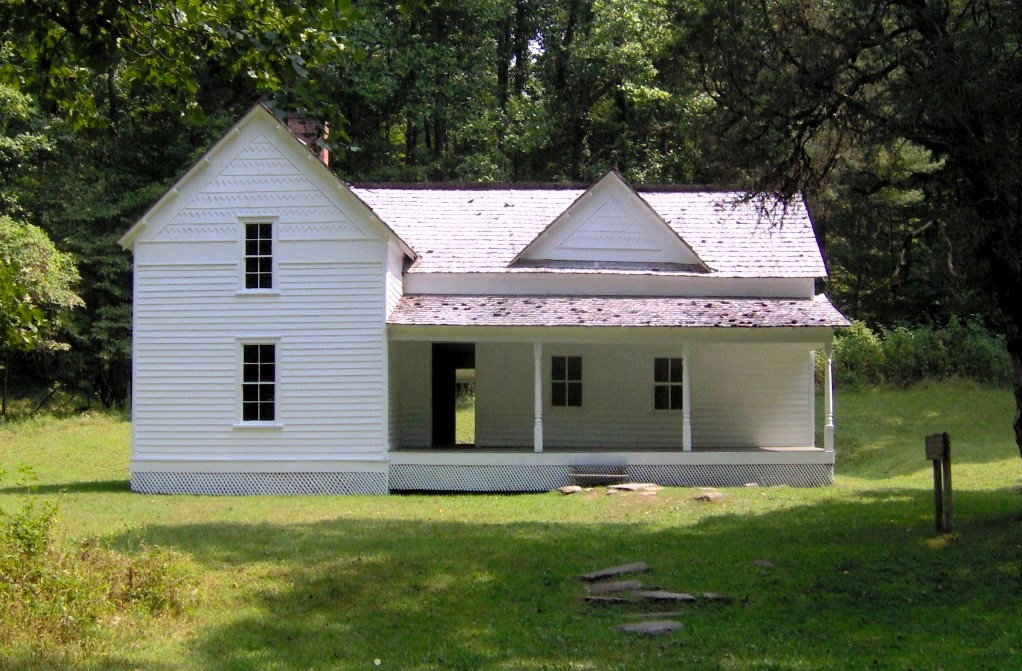 Steve Woody House in Big Cataloochee, located in the Great Smoky Mountains of North Carolina. The house was originally a log cabin built in 1880-1881, with framed additions and weatherboarding completed in the early 1900s. Woody's frame springhouse is nearby. This house is located along the Rough Creek Trail, about a mile from the parking lot.